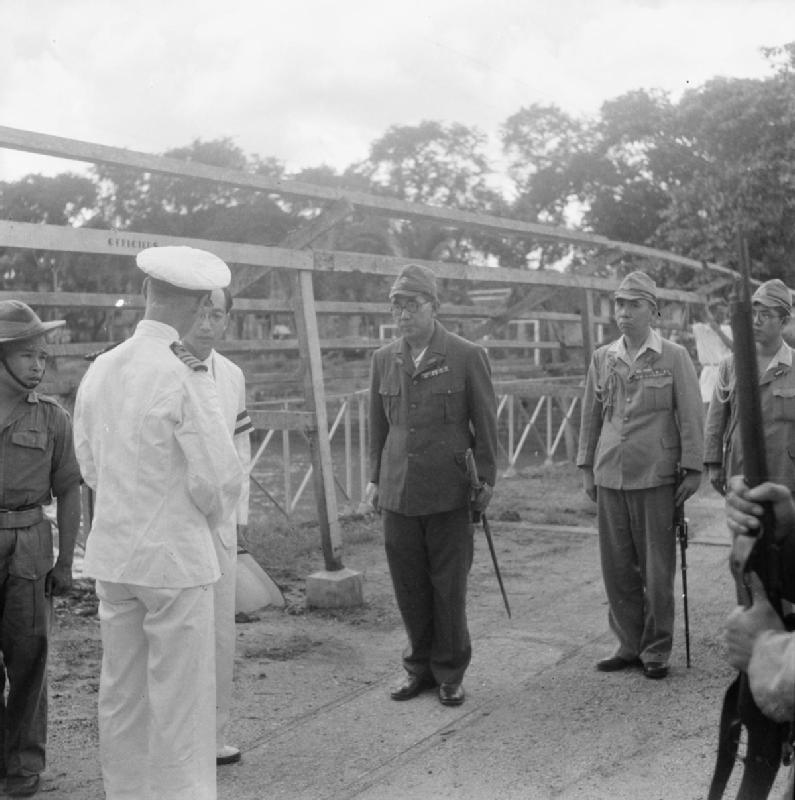 British Captain Scott-Bell of the Royal Navy speaks with Japanese Admiral Kondo through an interpreter after the landing of Allied occupation forces at Saigon.